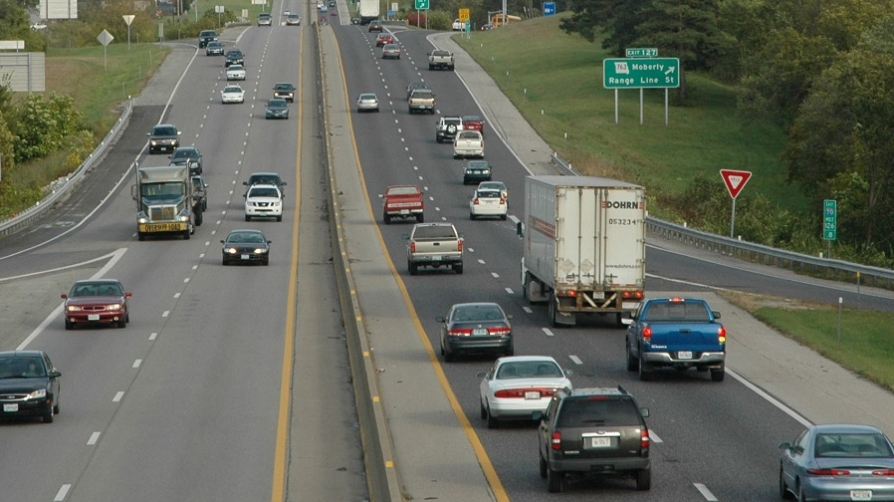 A two-lane expressway with cars driving on it.